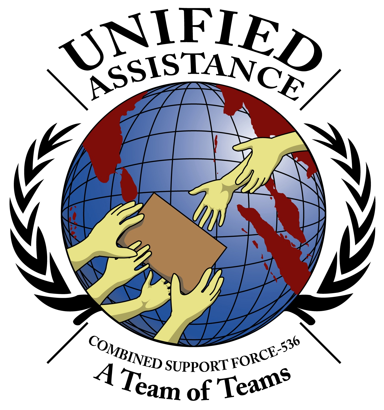 Utapao, Thailand (Jan. 15, 2005) — The Operation Unified Assistance logo. The logo was approved Jan. 15 and represents the supplies given to the affected people of Thailand, Sri Lanka and Indonesia after a magnitude 9.0 earthquake Dec. 26 triggered devastating tsunamis. More than 18,000 Marines, Sailors, Airmen, Soldiers and Coast Guardsmen with Combined Support Force Five Three Six (CSF-536) working with international militaries and non-governmental organizations to support in the relief effort. A combined support force of host nations, civilian aid organizations and U.S. Department of Defense are working together during this historic operation.